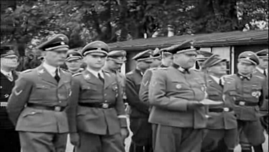 Video still image number 1968 of 14239, at 01:20. See also File: Waffen-SS memorial and raw footage (Denmark, 1944).ogv